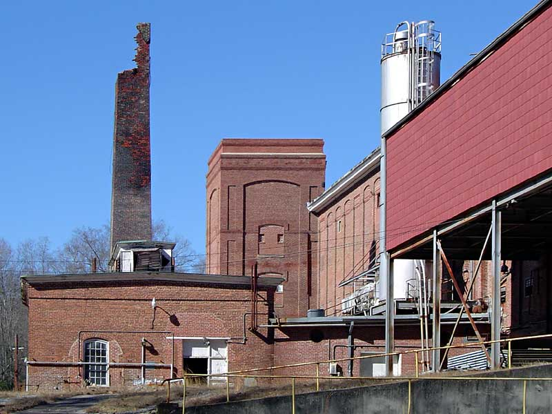 Back yard of the Graniteville Company Vaucluse Division textile mill, Vaucluse South Carolina, now closed. Photograph 2007 by P J Hughes